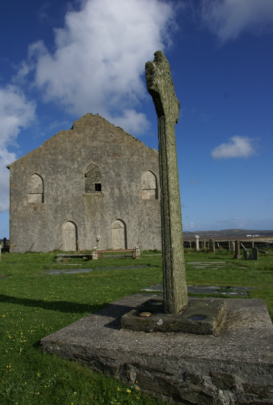 Kilchoman Old Parish Church, Kilchoman, Islay, Argyll and Bute, Scotland. View from the south. On the foreground the Kilchoman Cross.